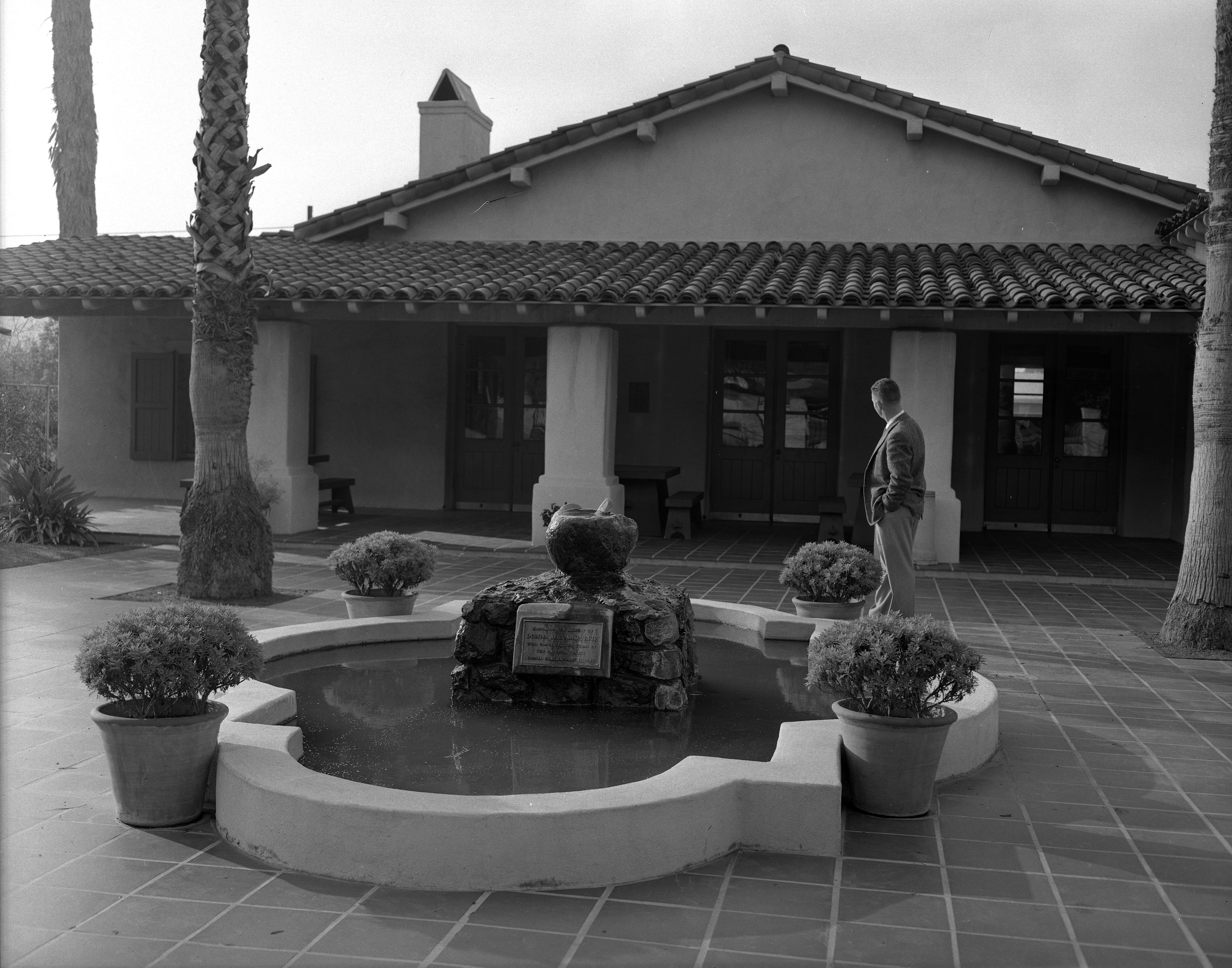 Title: Know Your City No.78 Memorial fountain and courtyard of Campo de Cahuenga, Calif. Published caption: KNOW YOUR CITY, NO.78 -- Although it shouldn't, this one may stump you. You get no hints--other than this probably is one of most historically significant spots in California. Something to do with signatures. Answers on Page 31, Part l. Publication:Los Angeles Times Publication date:February 3, 1956 Notes: ANSWER: Shown in the picture is the memorial, Campo de Cahuenga, scene of the signing of the Treaty of Cahuenga by Lt. Col. John C. Fremont of the U.S. Army and Gen Andres Pico of the Mexican forces. By this treaty, signed Jan. 13, 1847, the United States acquired California. This memorial building and courtyard are at 3919 Lankershim Blvd., near the Los Angeles River and across the street from Universal City. Declared Los Angeles Historic-Cultural Monument #29 by the City of Los Angeles in 1964.